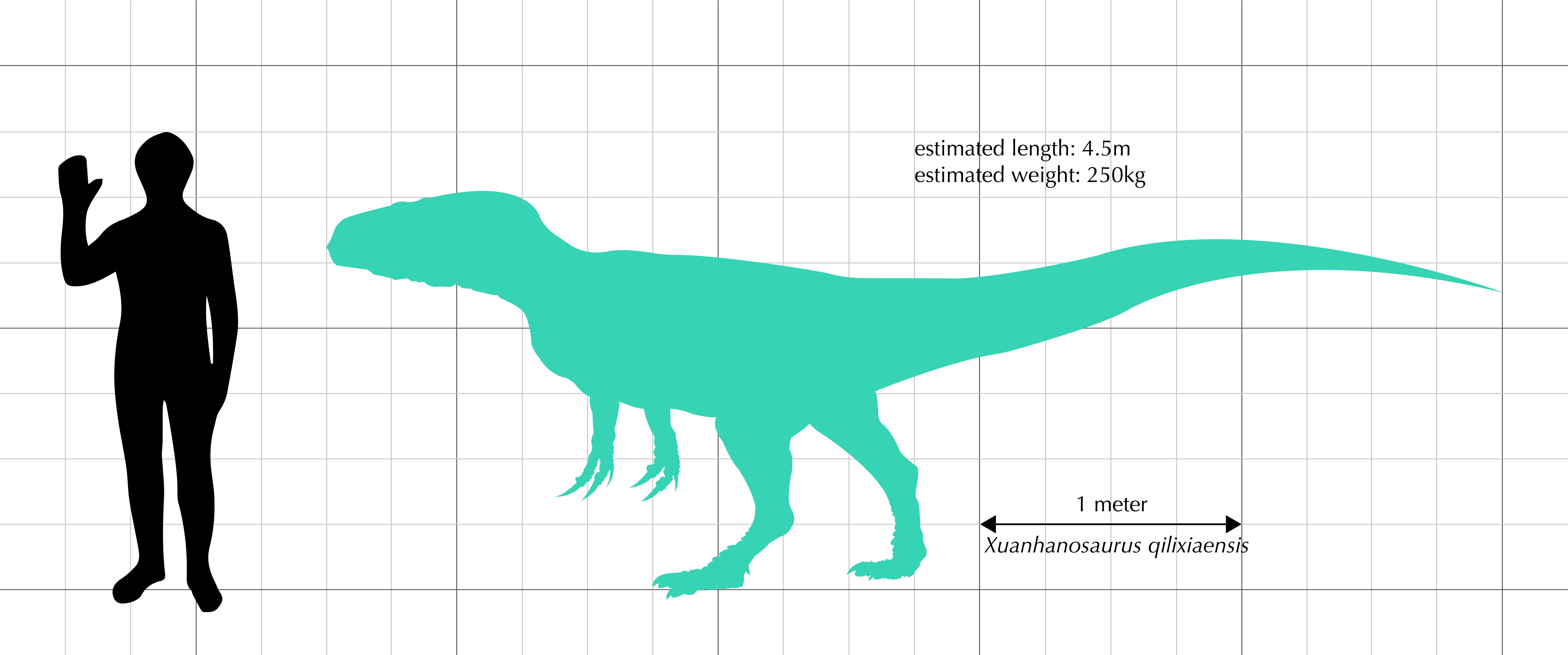 A size comparison between a human male and a Xuanhanosaurus qilixiaensis specimen (size estimates by Paul, 2010).